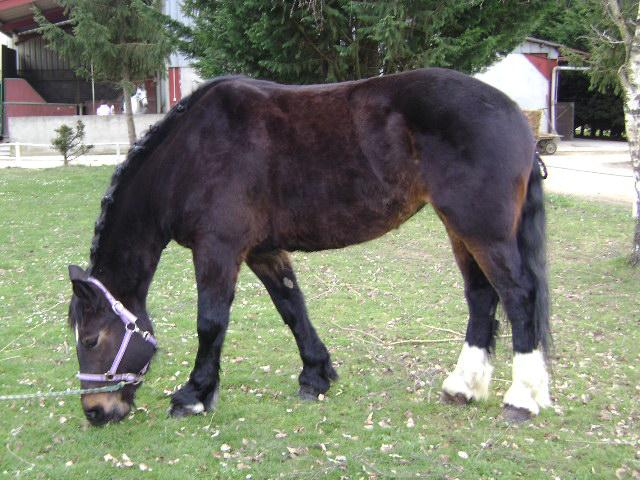 Olympe de Fontaine, Cob Normand mare